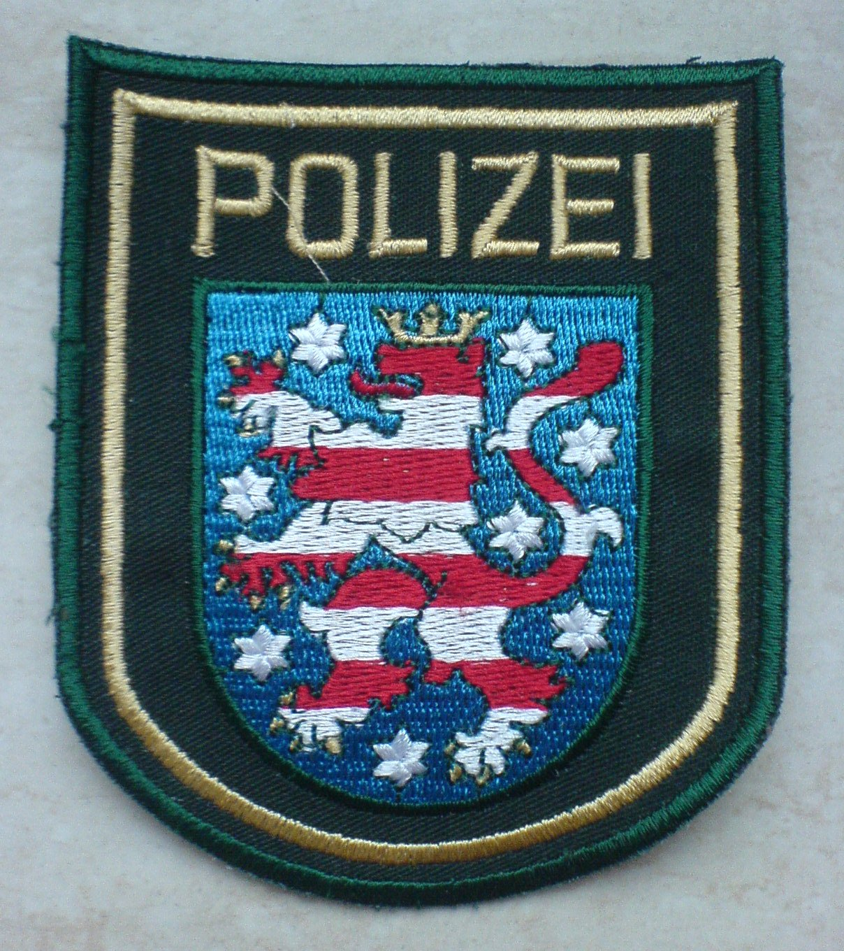 Thuringia State Police shoulder patch since 1990.